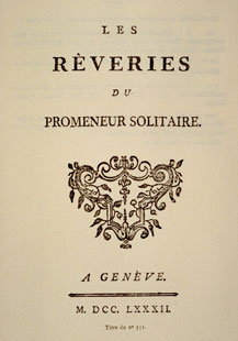 Title page from the first edition of Jean-Jacques Rousseau's 'Reveries of a Solitary Walker'.